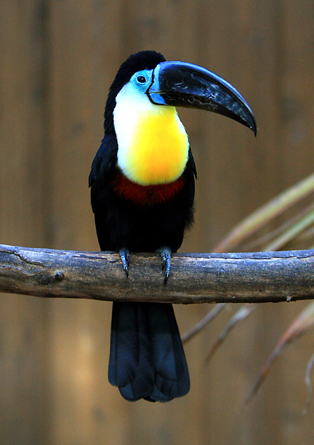 Channel-billed Toucan in Matsue Vogel Park, Japan.